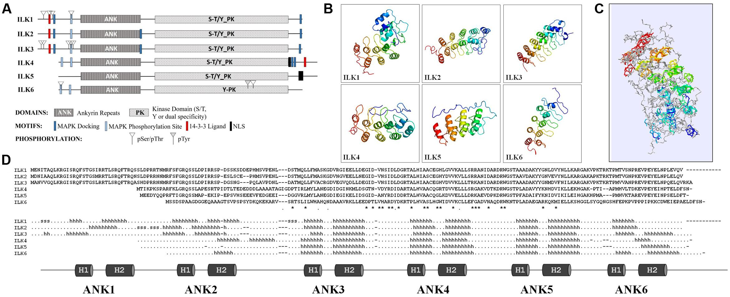 FIGURE 1. Structural features of the Arabidopsis ILKs using eukaryotic linear motifs. (B) Predicted 3D structures of ILKs ankyrin repeats. (C) Superimposed ILKs’ 3D structures. The structures are colored to represent the succession of secondary structure elements (N-terminal/blue to C-terminal/red). The structural superposition of the PHYRE2 predicted 3D structures and alignments were performed using the ‘Iterative fit’ function of the Swiss-PDB Viewer 4.1.0. (Guex and Peitsch, 1997). (D) The alignment displays the amino acid sequence in each ILK. ‘∗/.’ indicate identical/similar residues. The predicted secondary structure is displayed below the alignment (h: α-helices, s: strands). The ankyrin repeats (ARs) are shown below and highlighted on the secondary structure alignment.